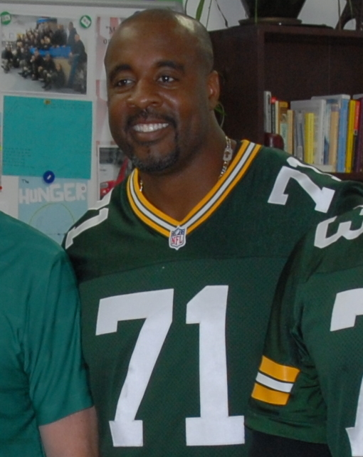 Members of the Green Bay Packers visited the cadets of the Wisconsin National Guard Challenge Academy May 17 at Fort McCoy, Wis., as part of their annual statewide Tailgate Tour. Cropped photo of Santana Dotson by Wisconsin National Guard photo by 1st Lt. Joe Trovato